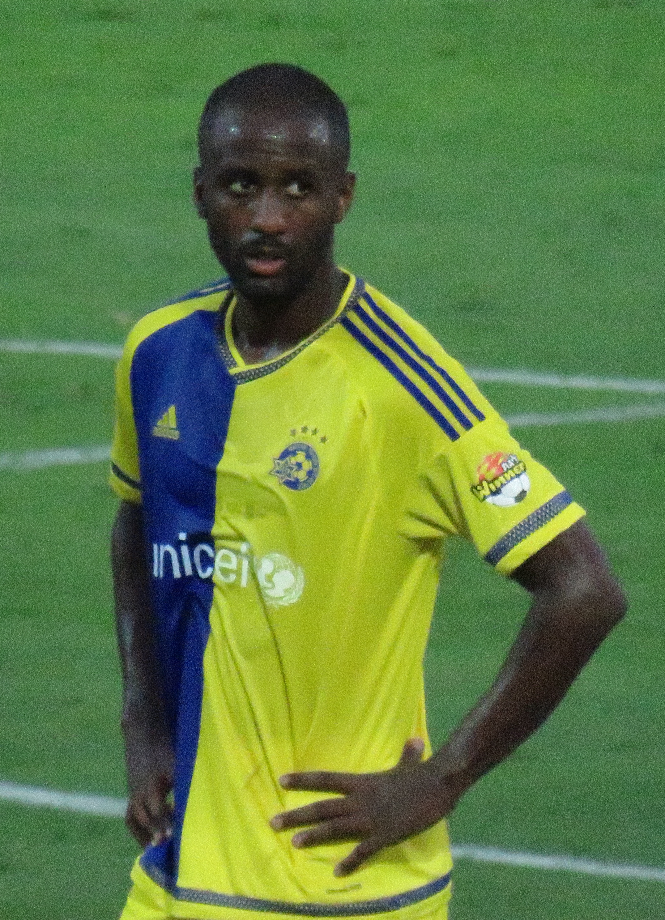 Maccabi Tel Aviv VS. Bnei Sakhnin, 22 August 2015